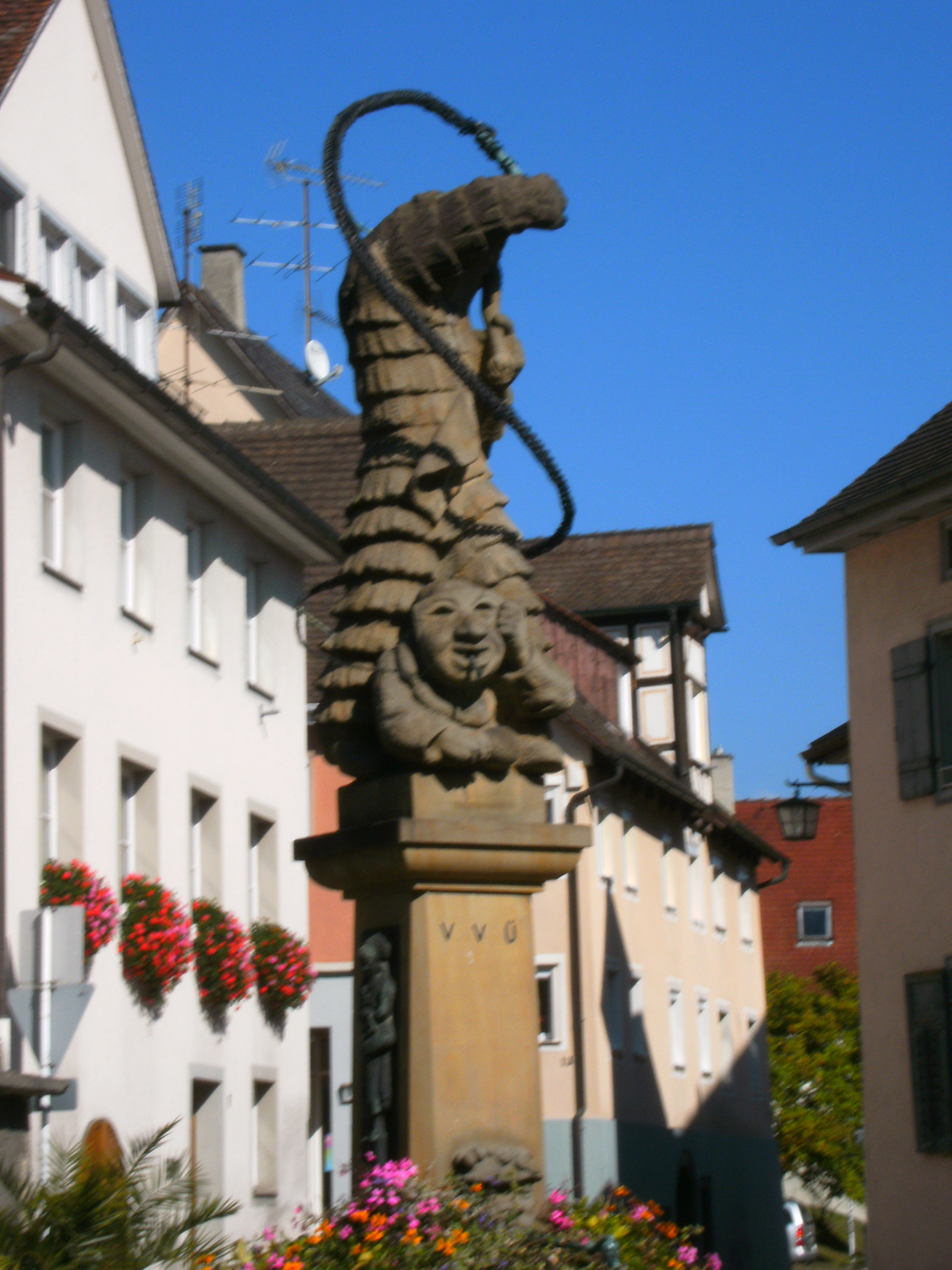 Überlingen, Germany: Hänselebrunnen (Carnival fountain) in detail.